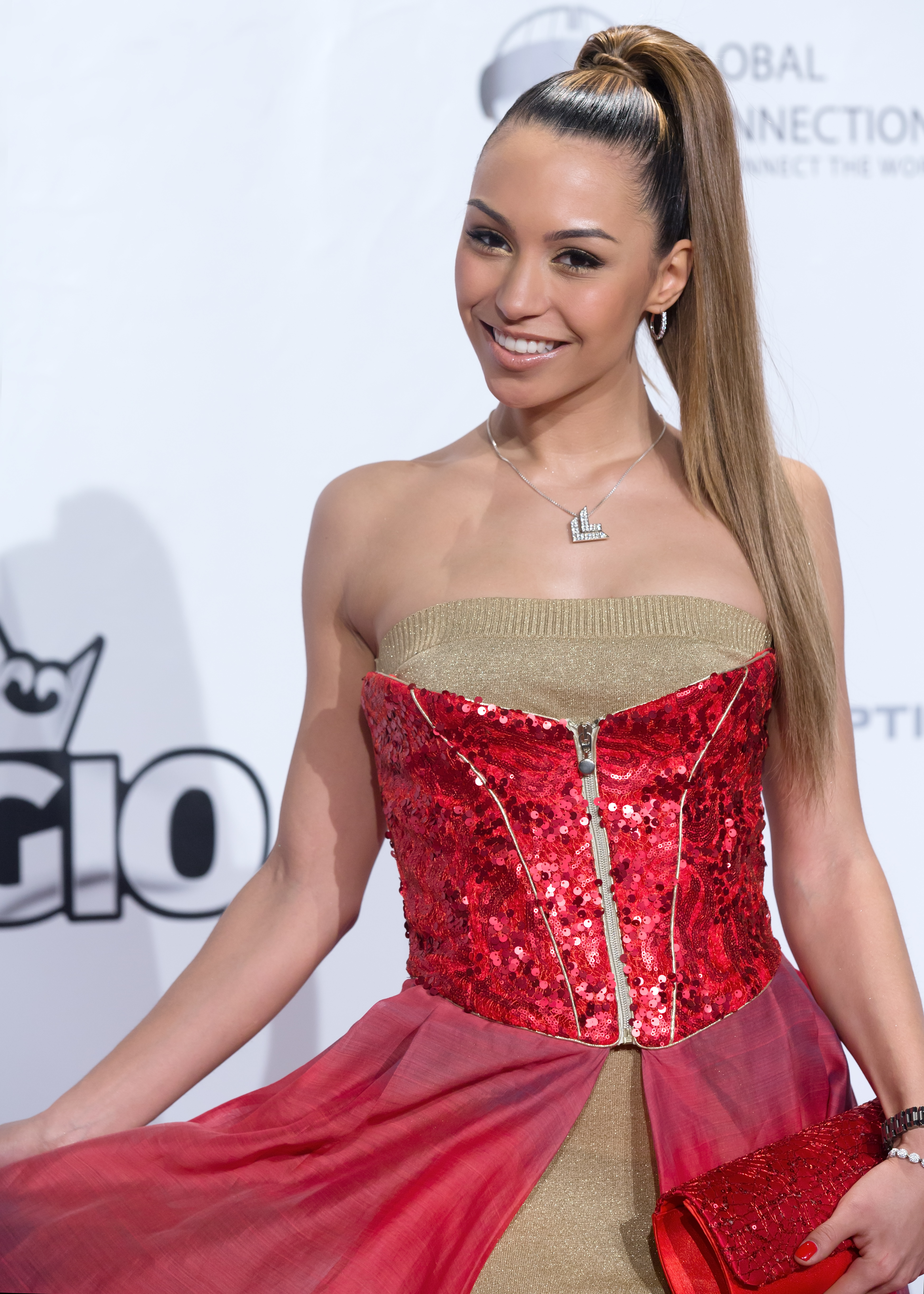 Ronja Hilbig on the red carpet of the Filmball Vienna at Rathaus, Vienna, Austria.